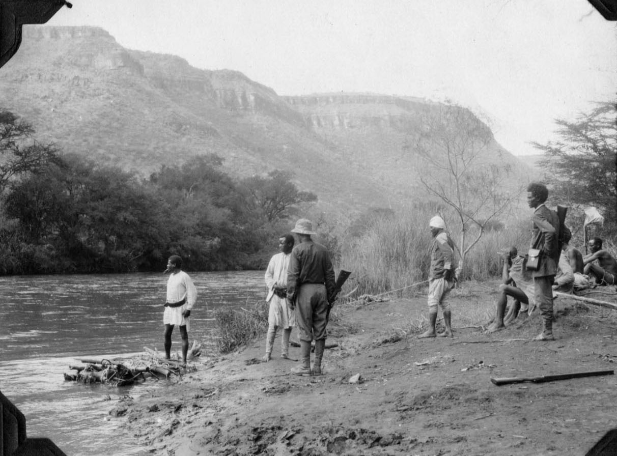 Men and expedition crossing the Webi Shebeli river. 1927. Name of Expedition: Daily News Abyssinian Expedition Participants: Wilfred Osgood, Louis Agassiz Fuertes, C. Suydam Cutting, Jack Baum, Alfred M. Bailey Expedition Start Date: September 7, 1926 Expedition End Date: May 20, 1927 Purpose or Aims: Zoology Mammals and Birds Location: Africa, Ethiopia [Abyssinia], Webi Shebeli Original material: 4x5 inch interpositive film Digital Identifier: CSZ55296 Learn more about The Field Museum's Library Photo Archives.